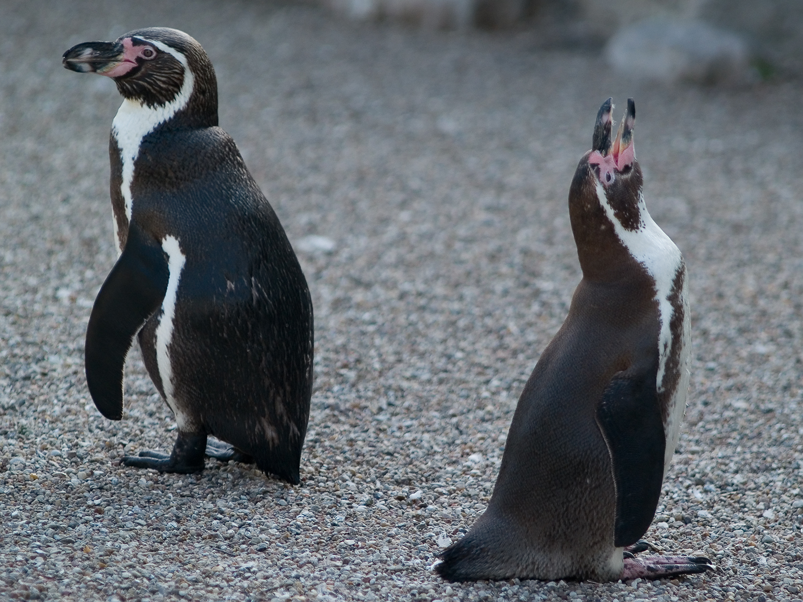 Humboldt Penguins looking funny.